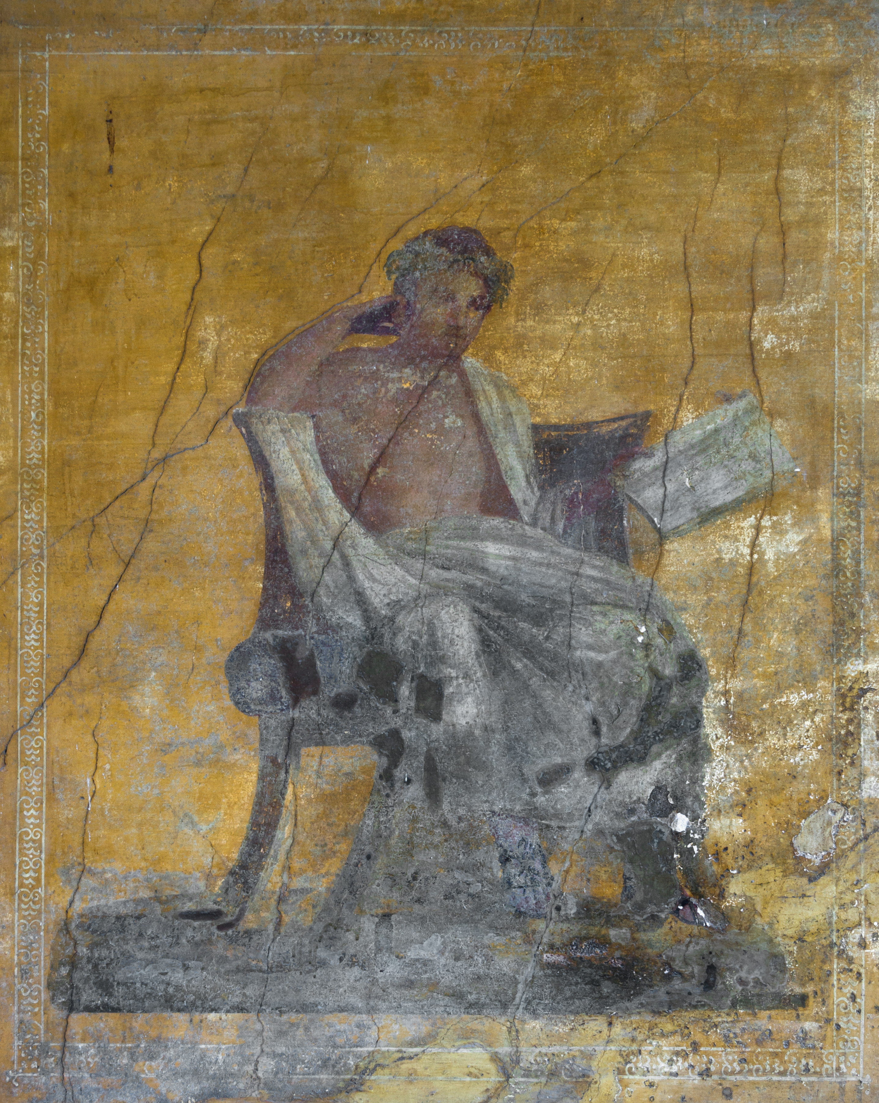 Menander, roman fresco in Pompeii, Italy